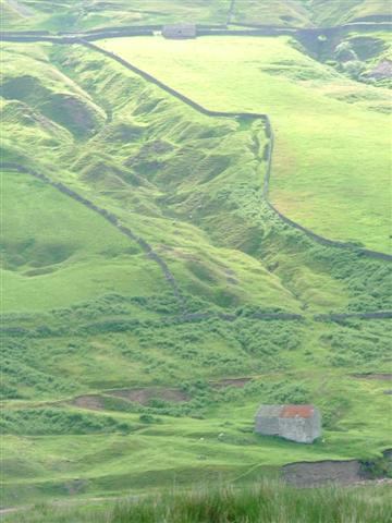 Deep Gulley, Hudes Hope, East Side.